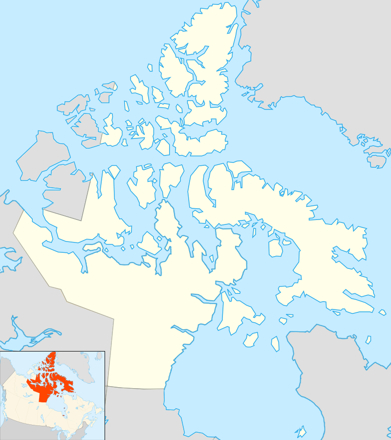 Map of Nunavut